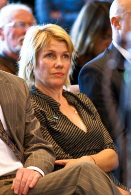 New Zealand actress, Robyn Malcolm, at the Green Party Campaign launch for the 2008 general election